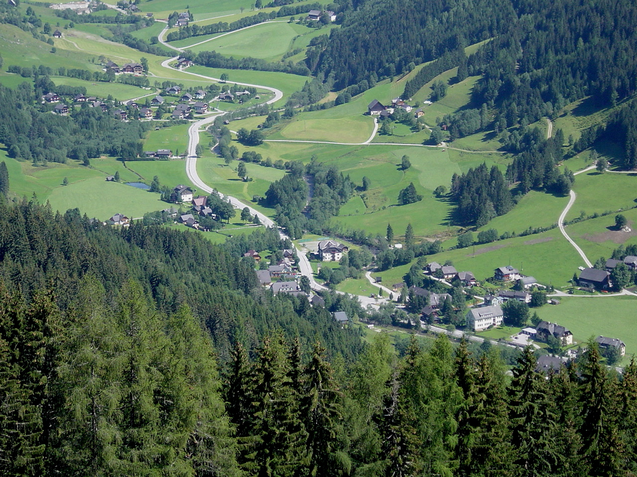 Picture of Donnersbachwald (taken from Riesneralm lift)